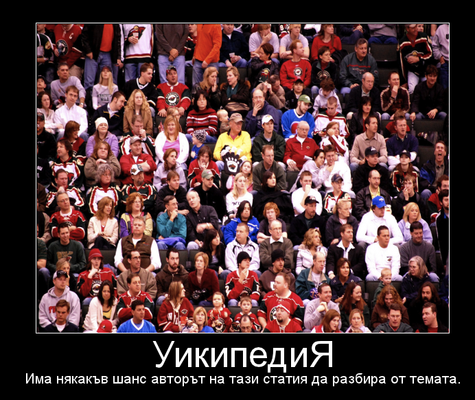 Demotivational poster about Wikipedia in Bulgarian